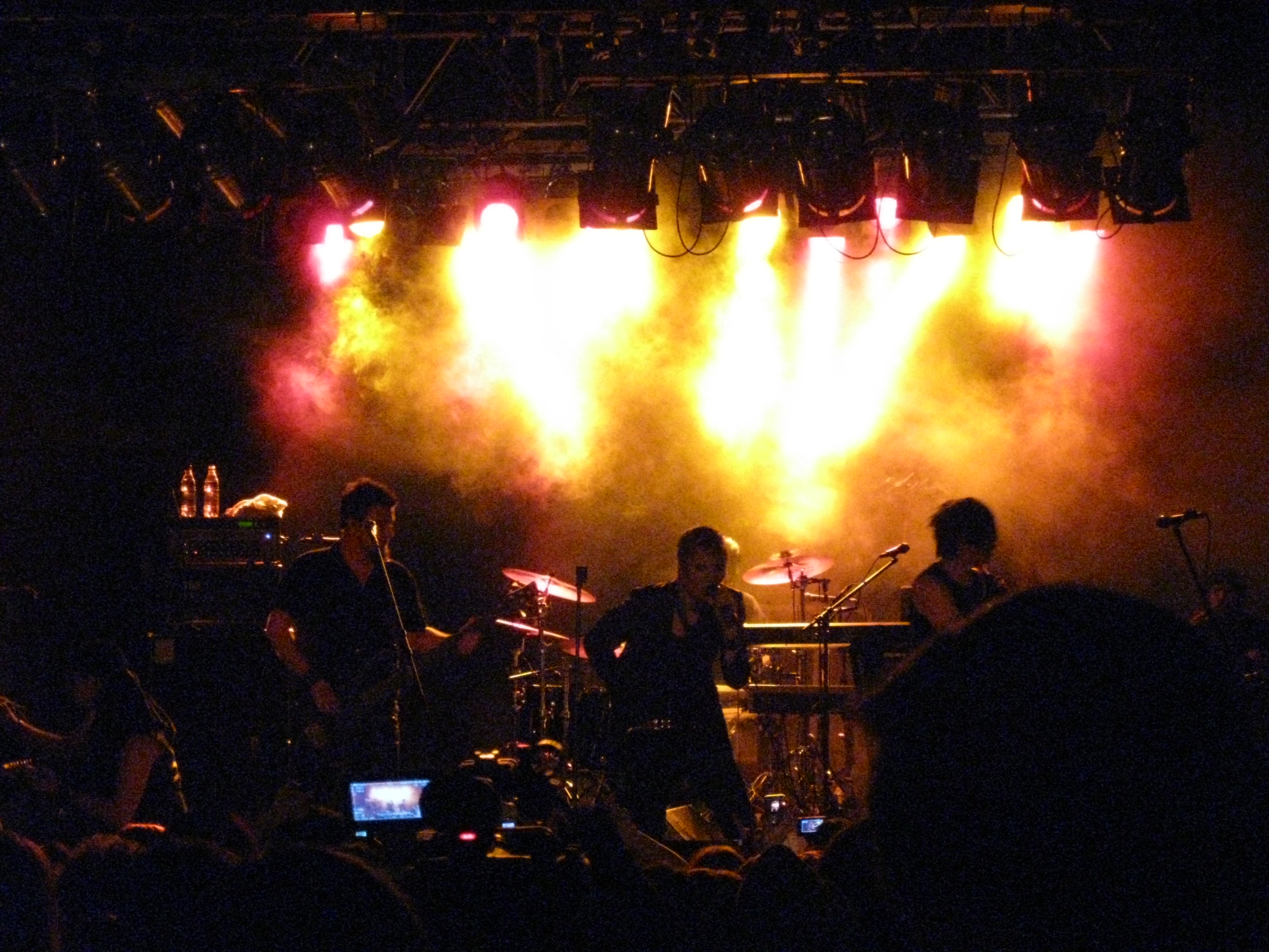 Lovex performing in Berlin on April 24, 2008.